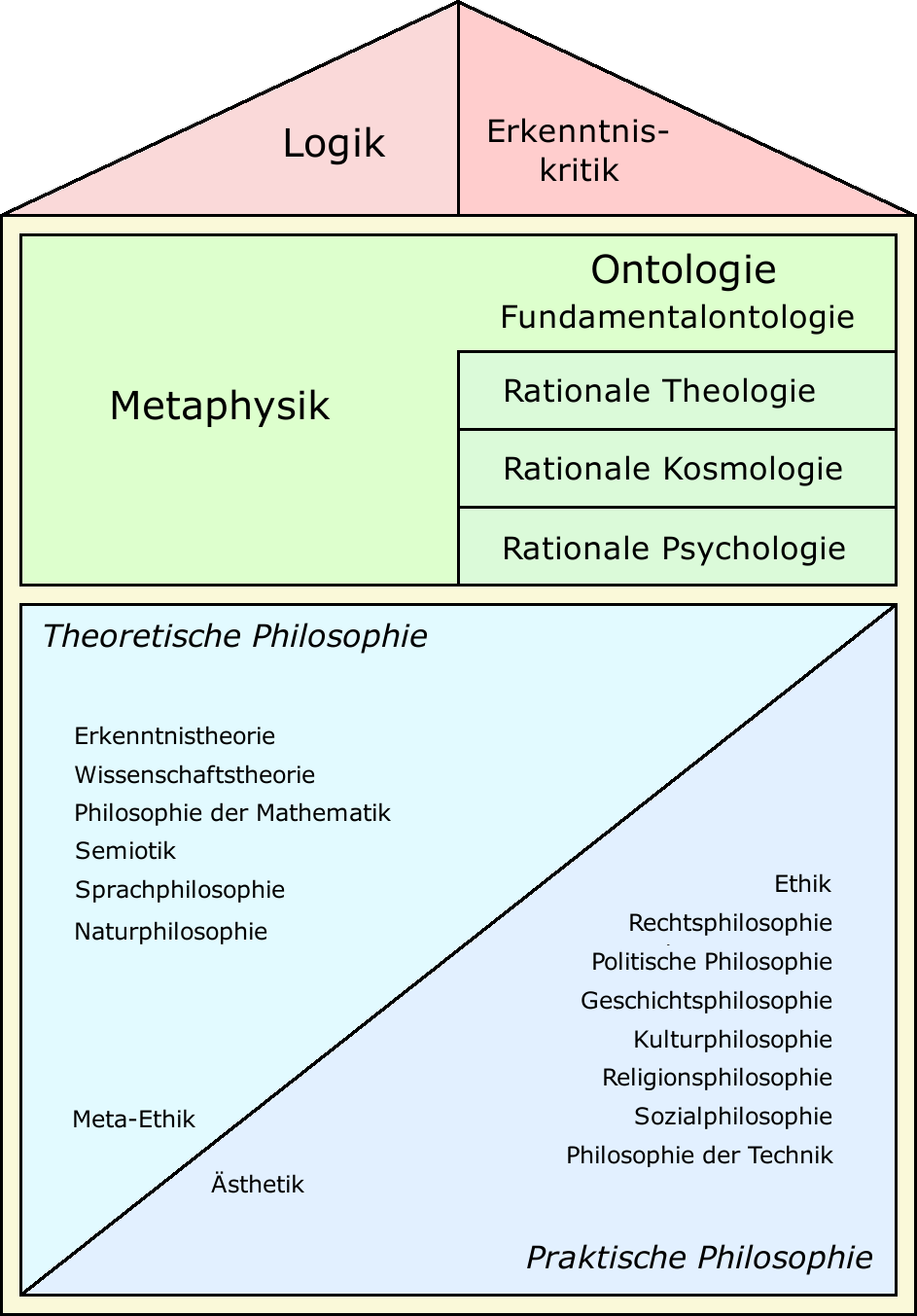 Eine mögliche Systematik der Philosophie (in Anlehnung an Aristoteles). Selbst erstellt. A possible systematics of philosophy (resembling Aristoteles, modified). My own creation.